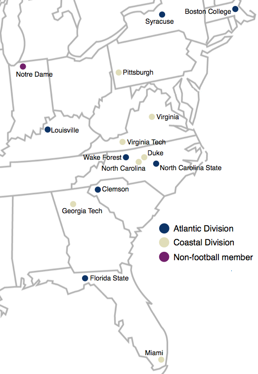 Current map of ACC Schools